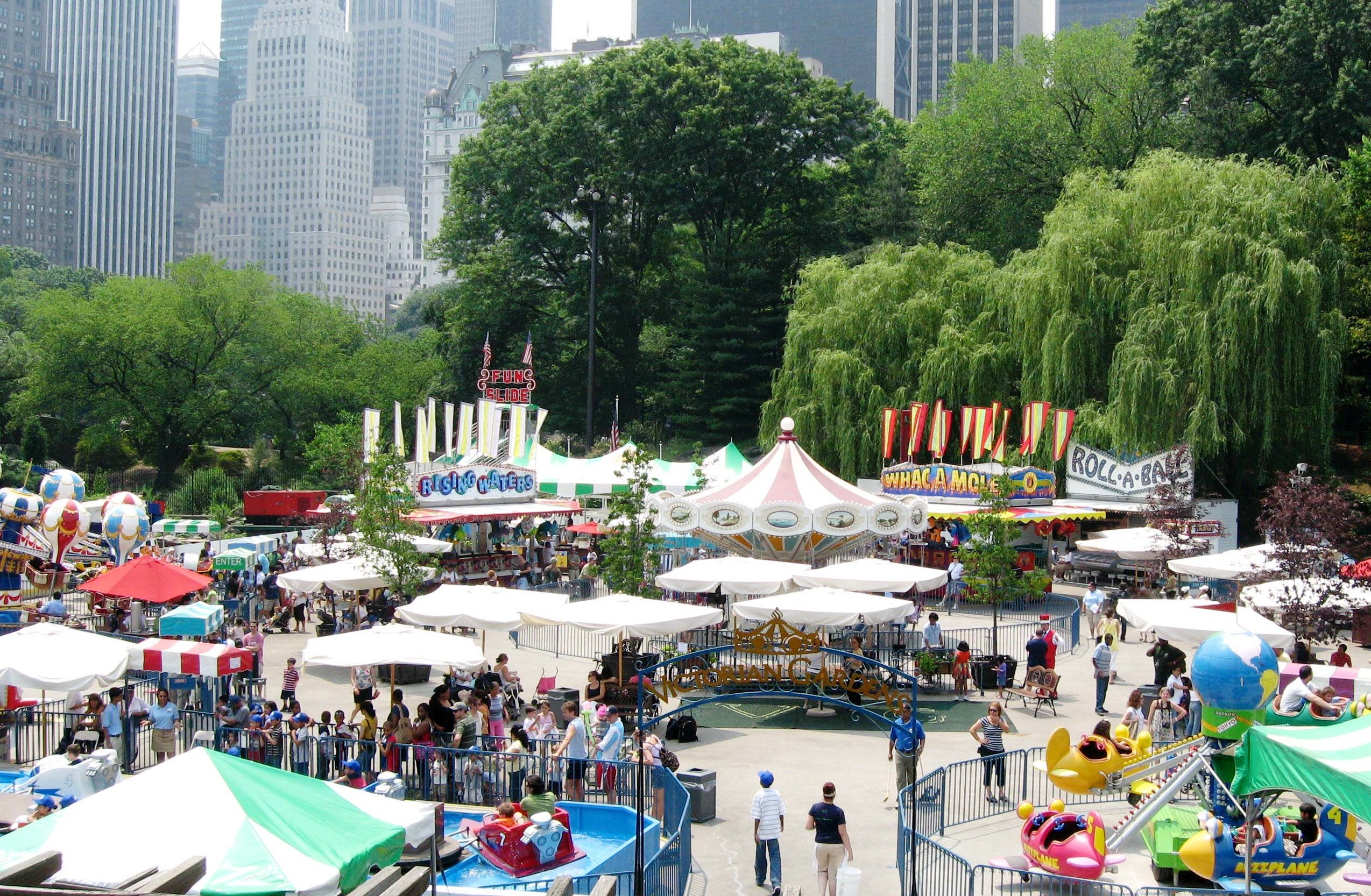 Looking south into Wollman Rink summer funfair on a sunny afternoon.